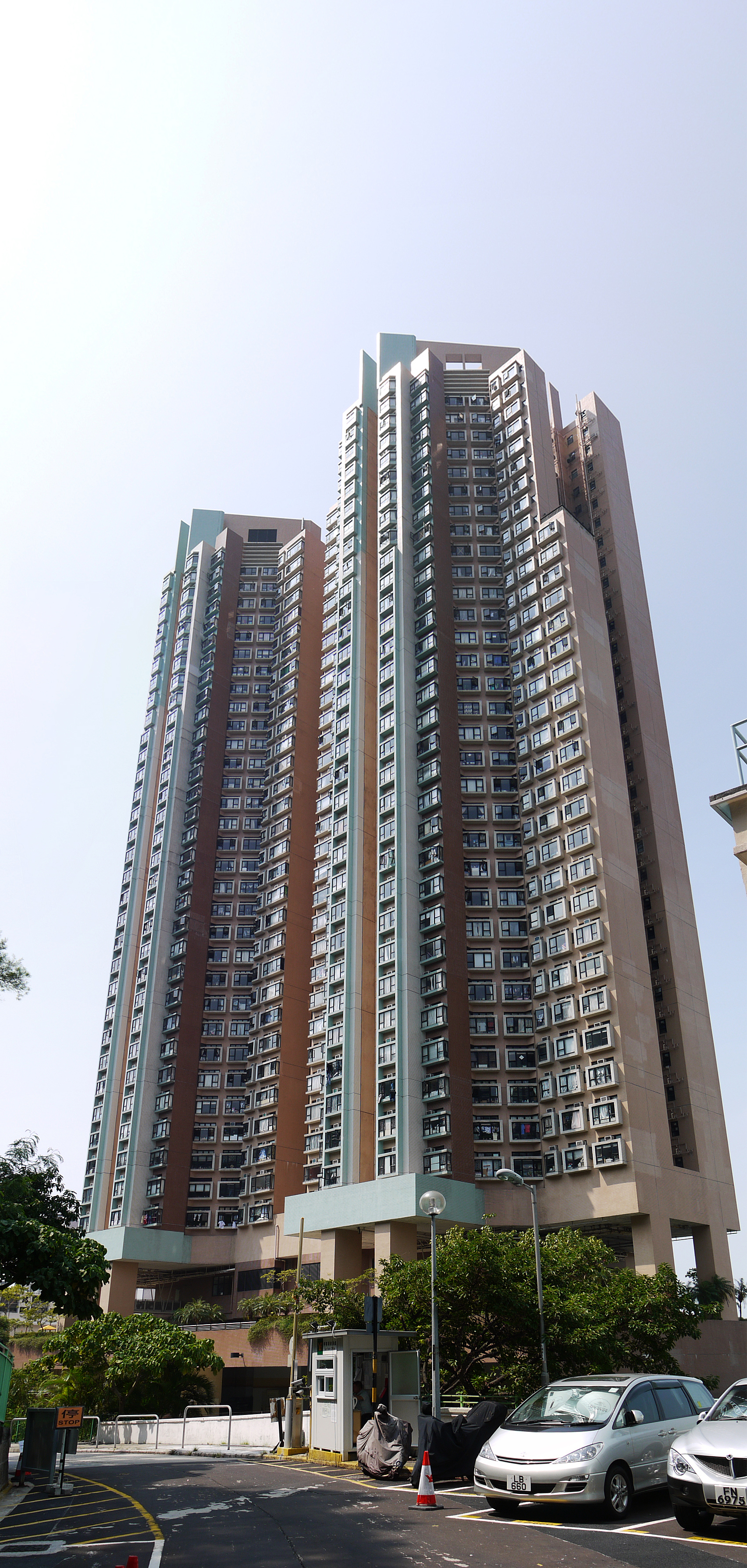 市區改善計劃---加惠臺